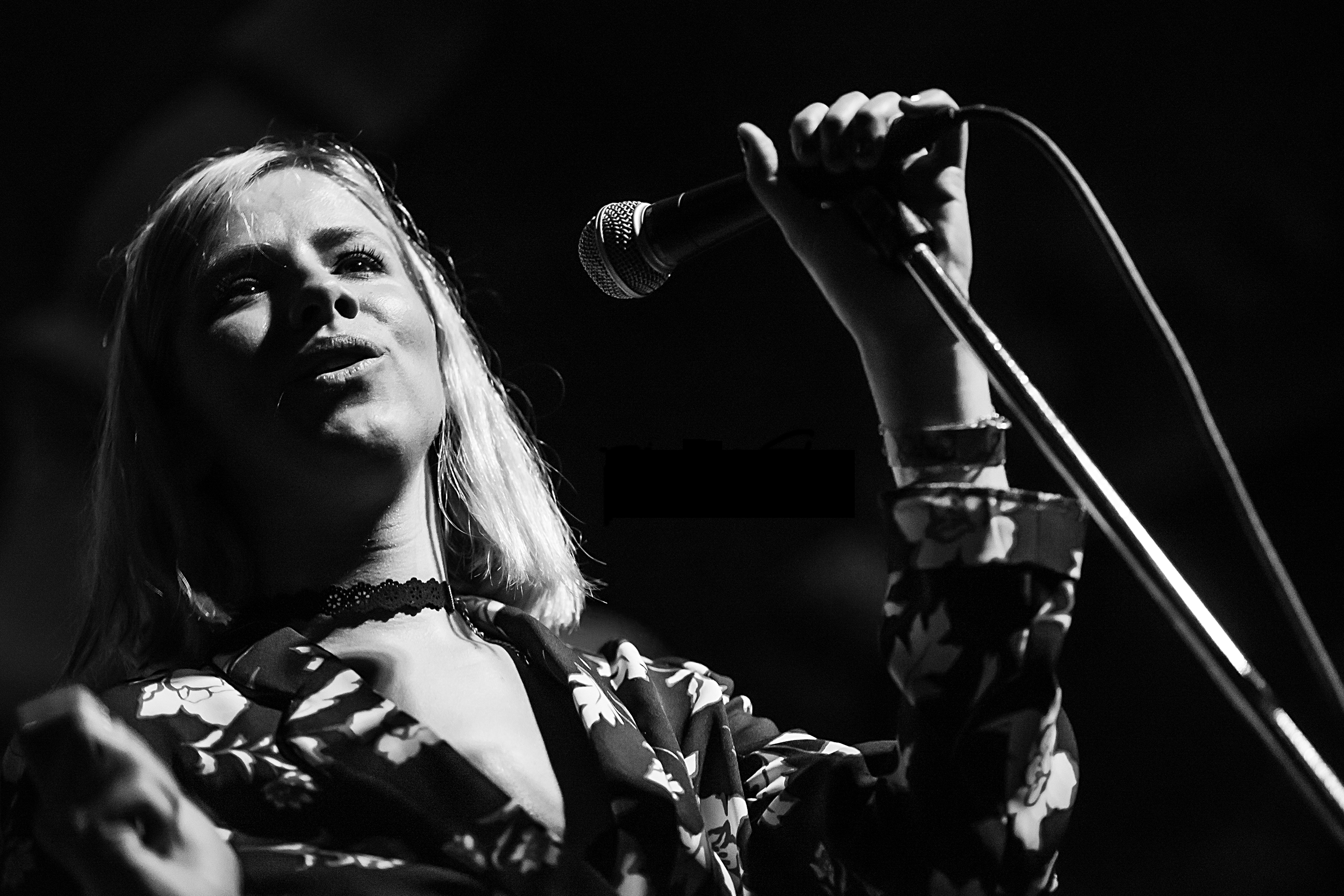 Dagny at School Night at Bardot